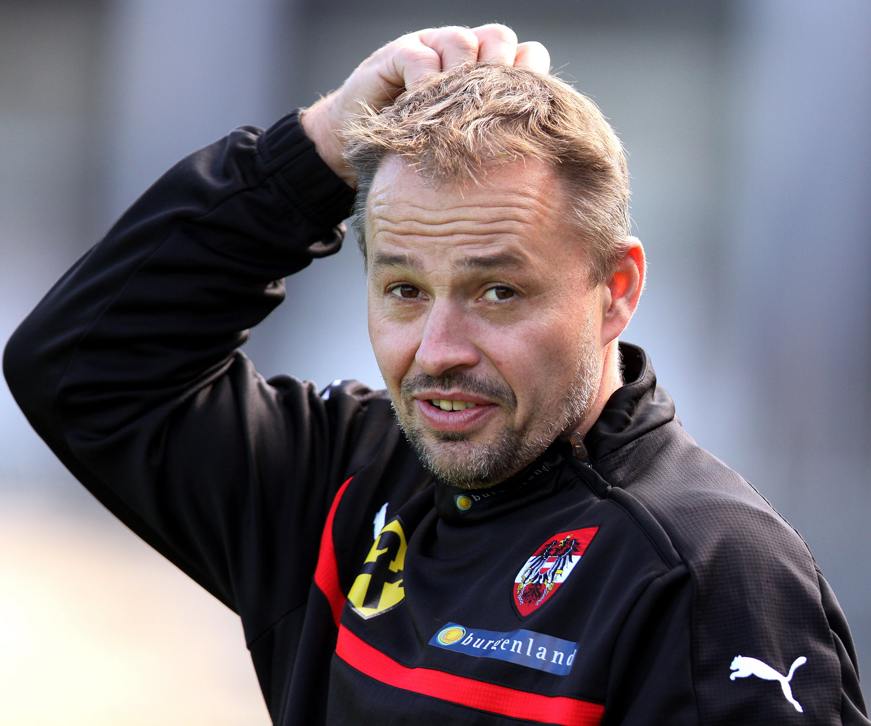 Teamcamp of the Austria national under-21 football team on 5.–9. October 2015 in Bad Erlach – The photo shows Roland Goriupp (goalkeeper-coach)